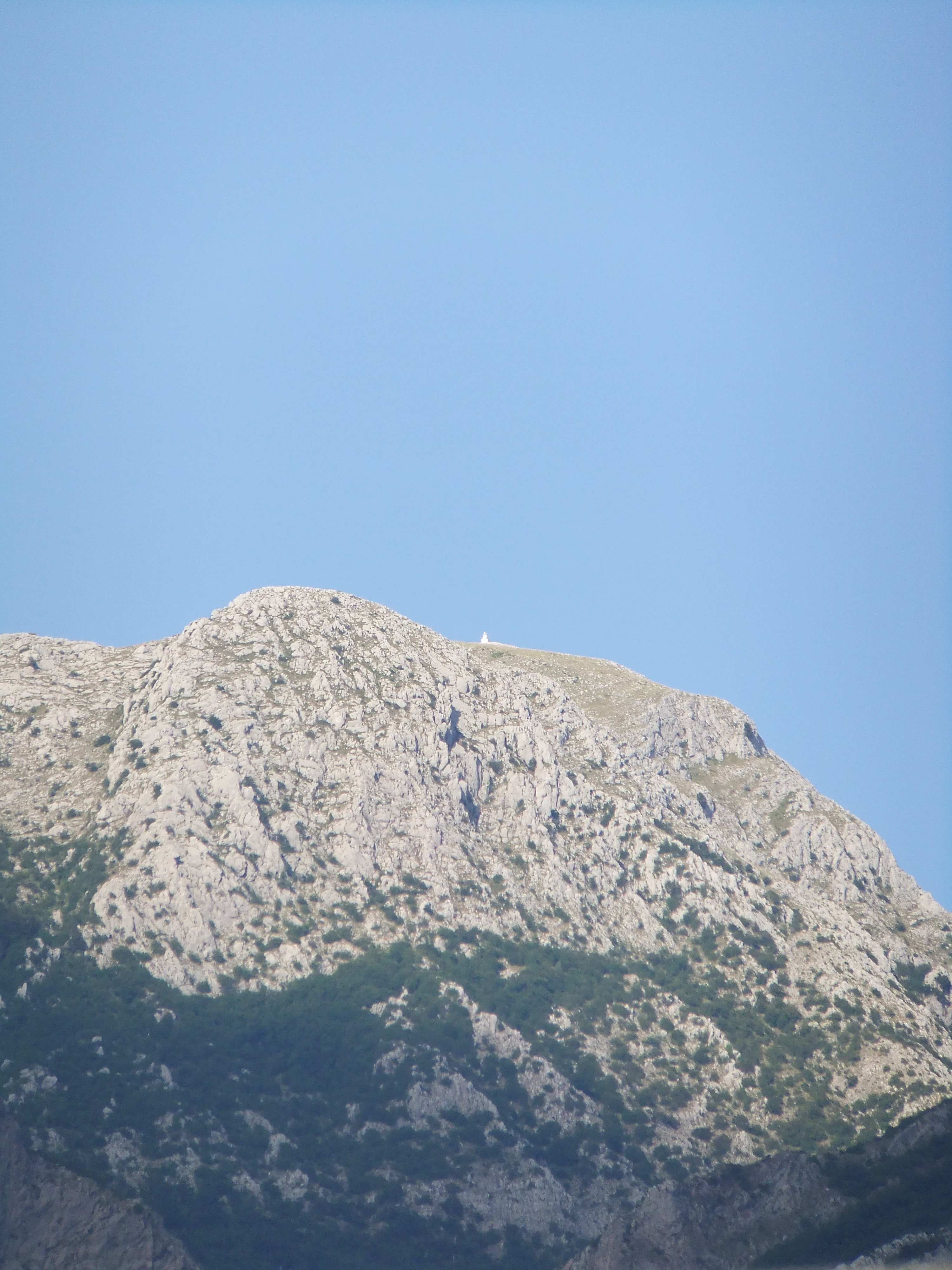 Rumija see from Stari Bar - We can see the church on top.